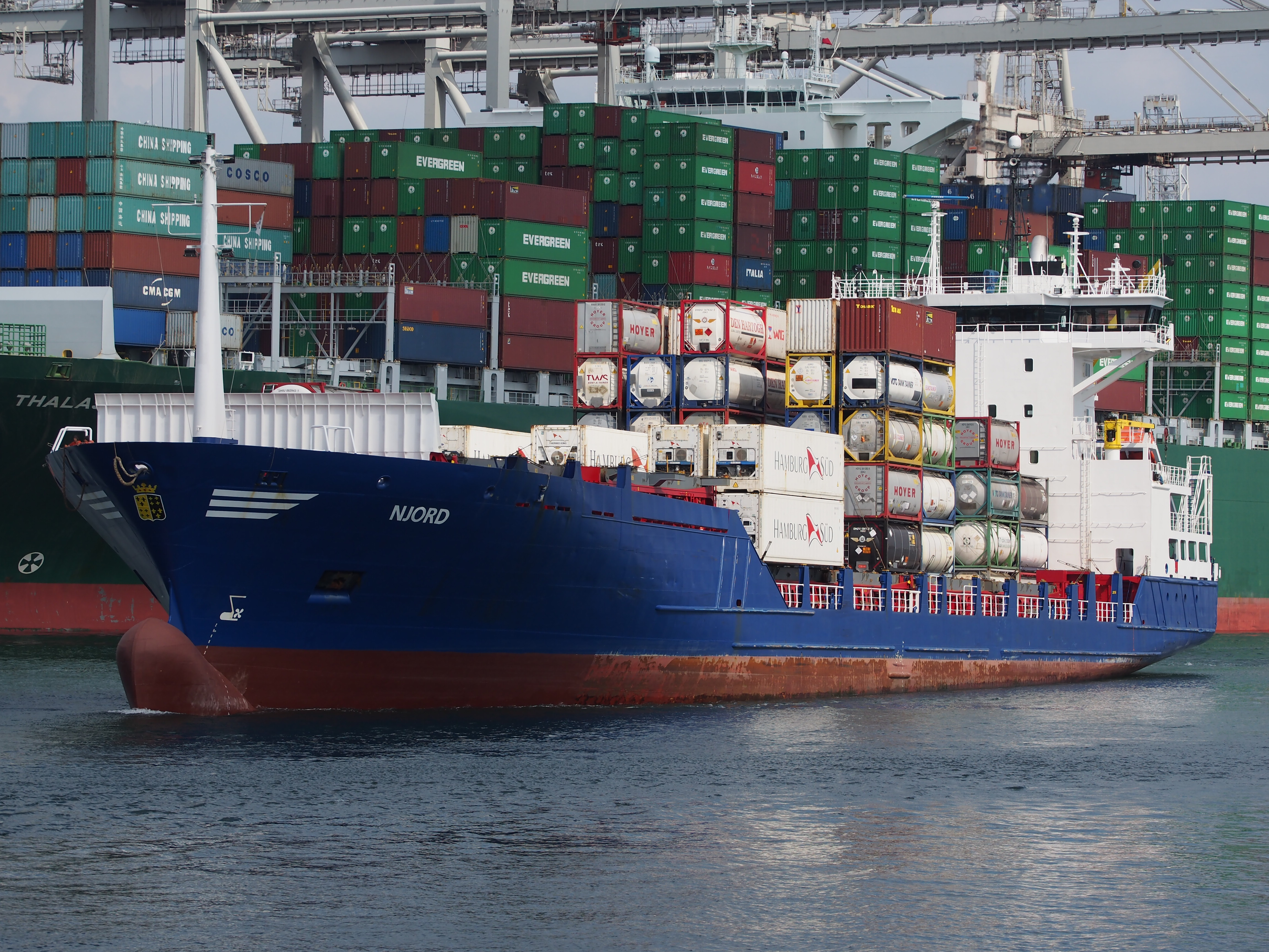 Photo taken at Port of Rotterdam, The Netherlands.